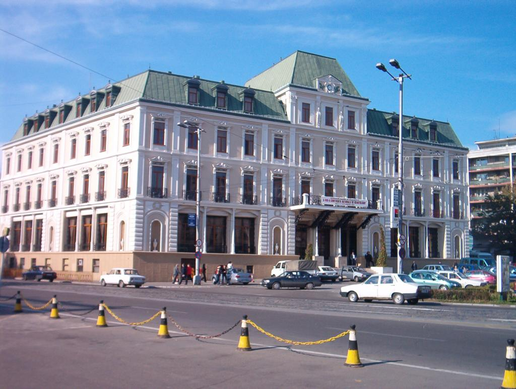 Grand Hotel Traian, Iași, Romania